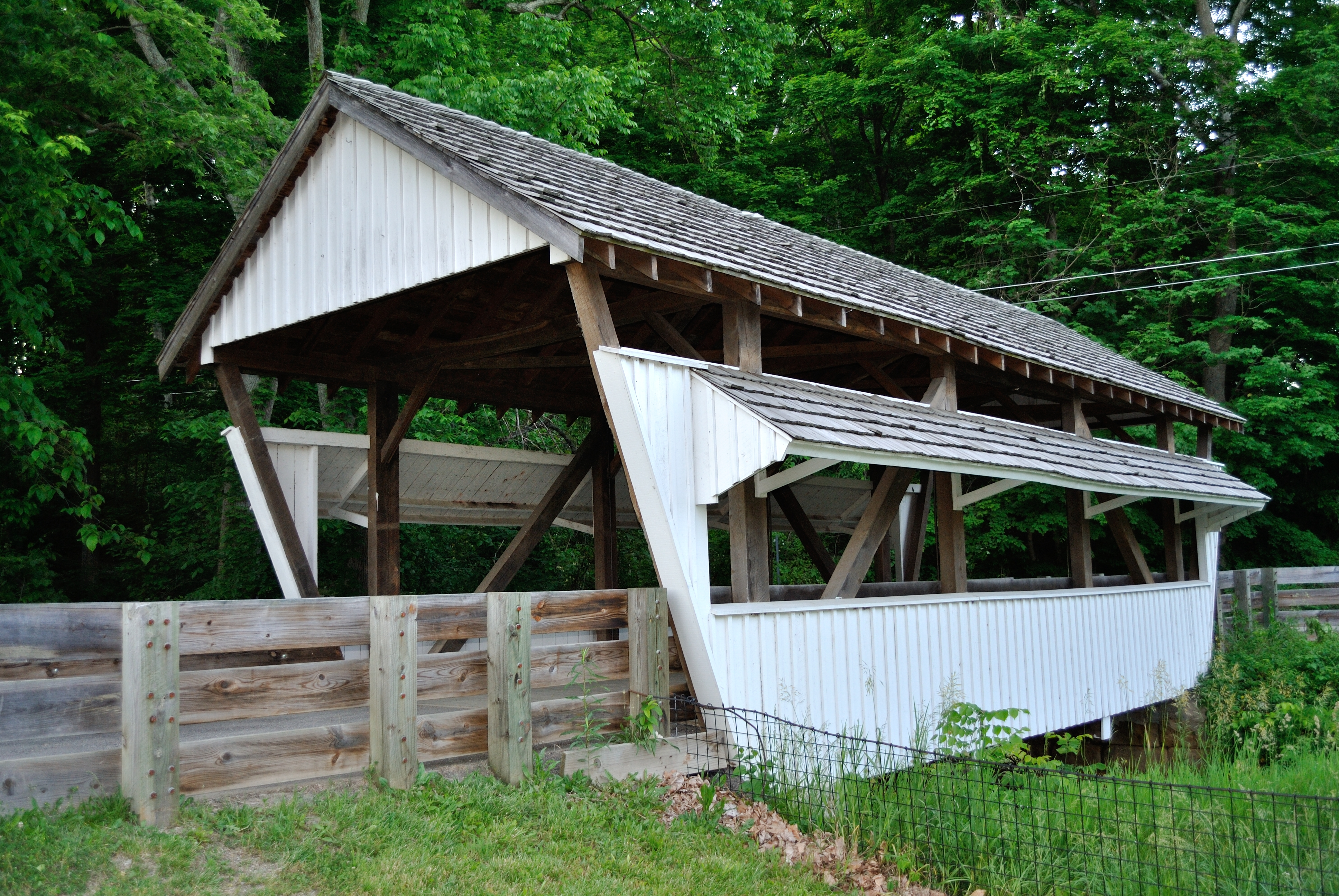 Rock Mill Covered Bridge located near Carroll, Ohio